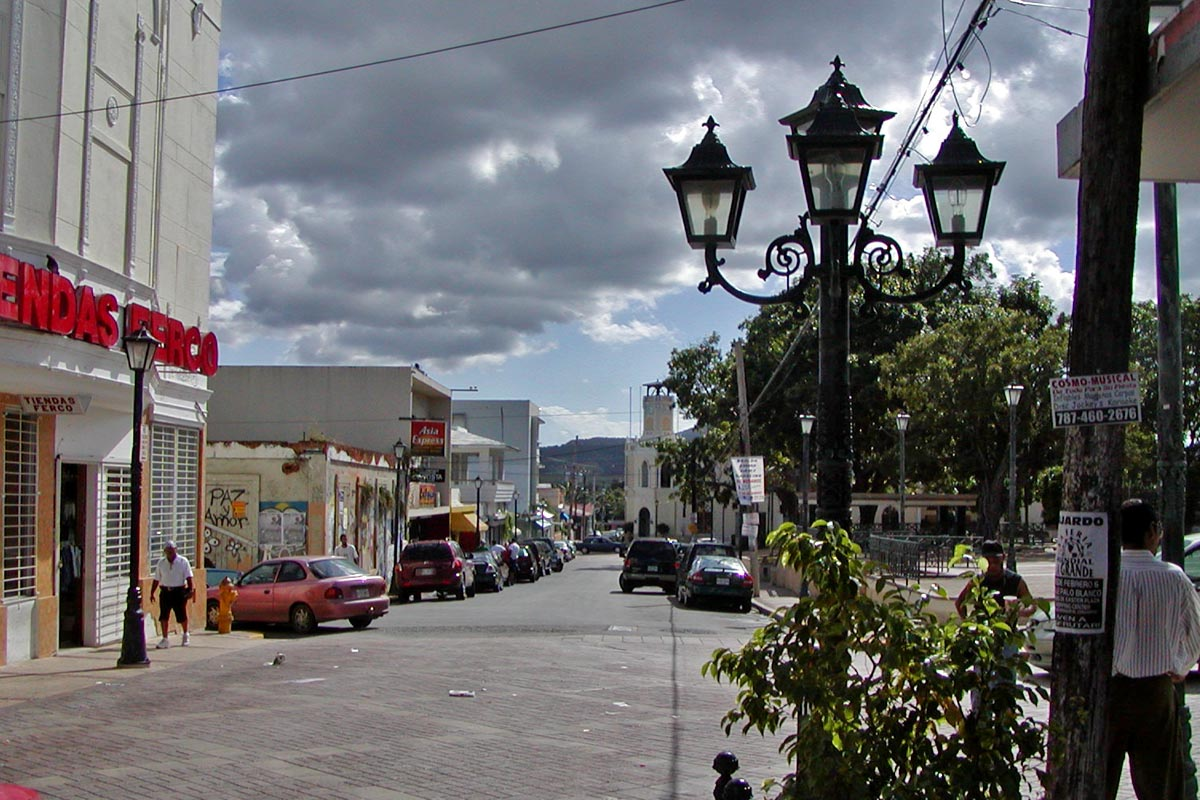 Photo of Fajardo, Puerto Rico street